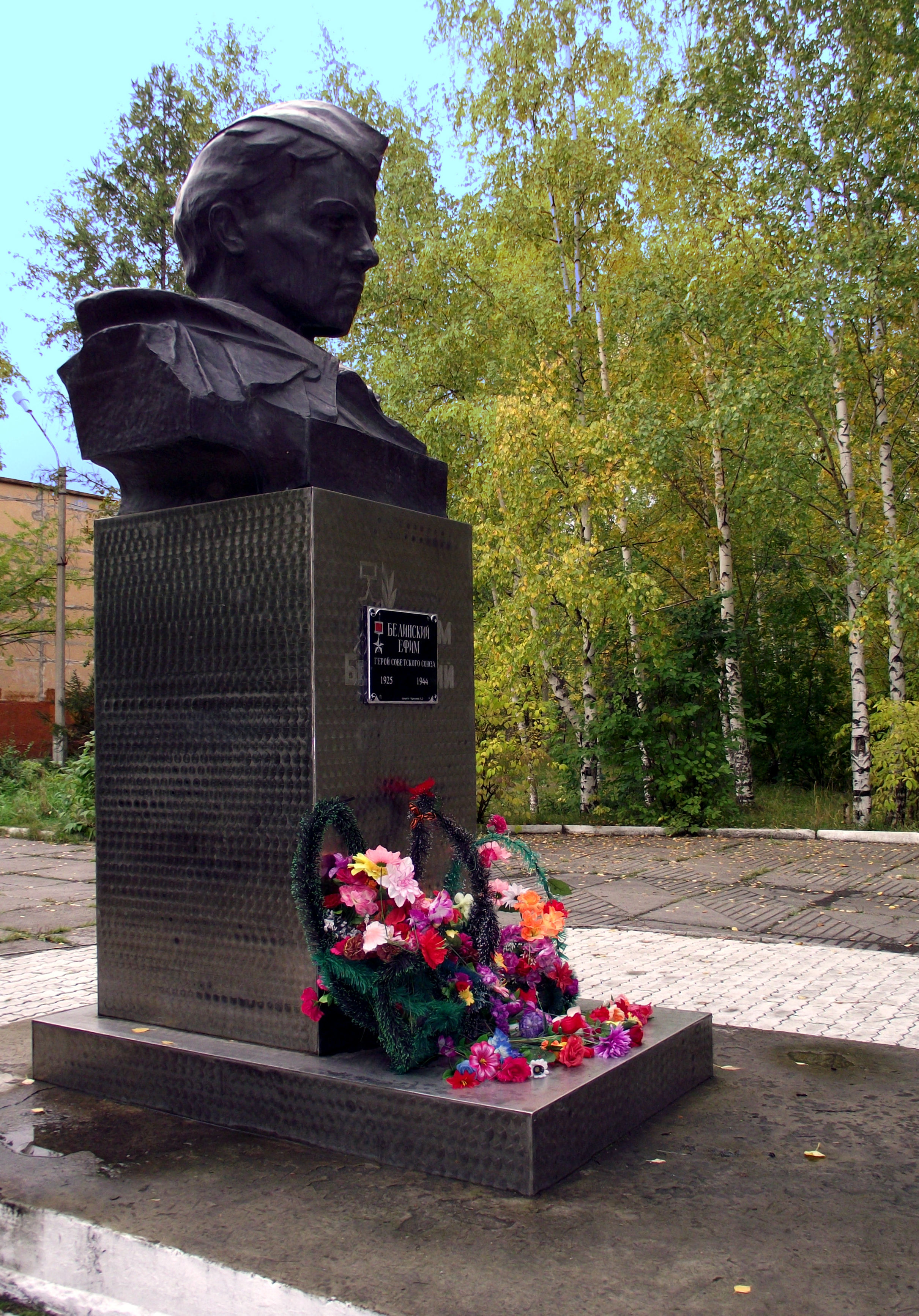 Monument to the hero of the Soviet Unio E.S.Belinsky in Lesosibirsk, in front of the school that bears his name.